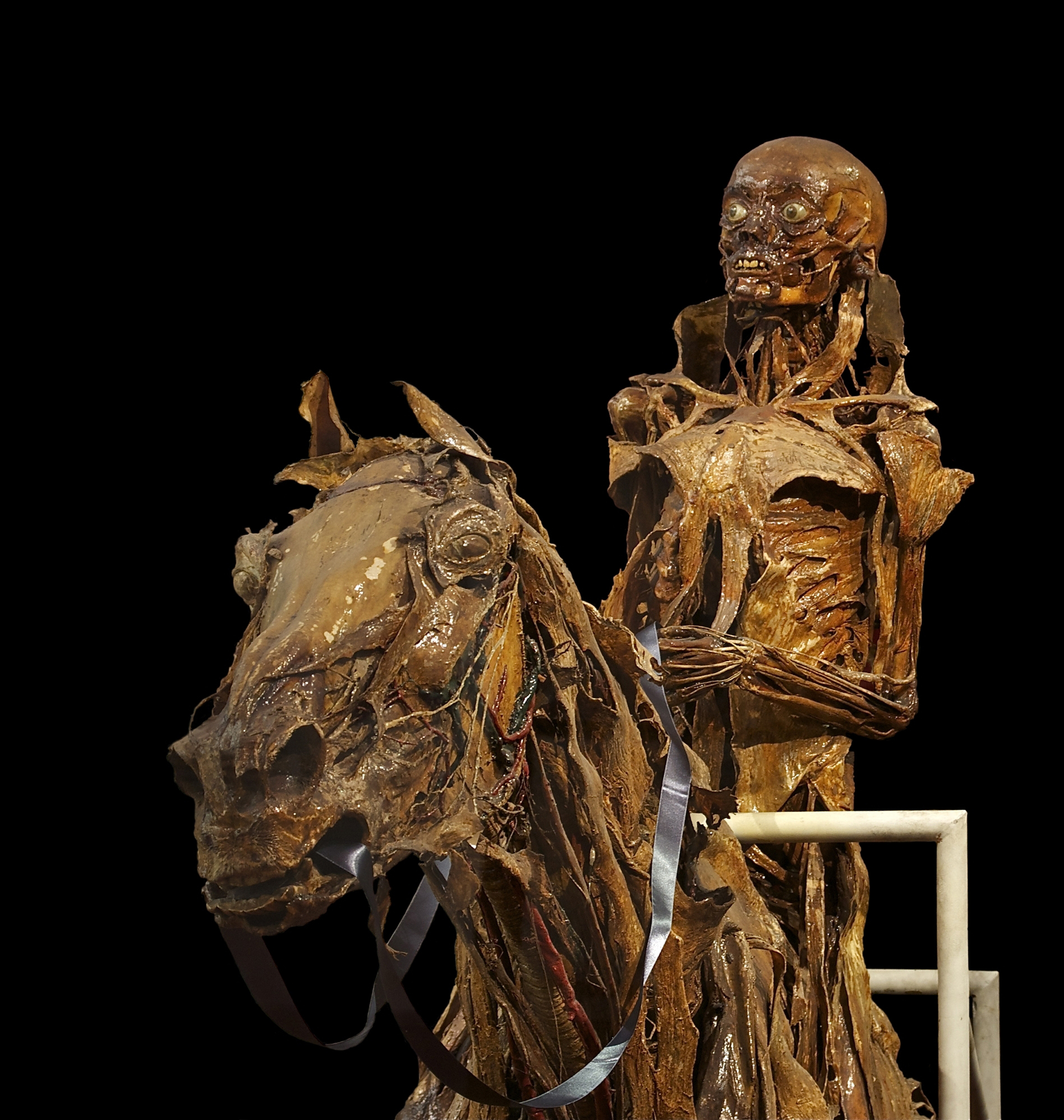 Detail of an écorché (with mummification) of a horse and its rider, made between 1766 and 1771 by the French anatomist Honoré Fragonard (1732–1799). It is in the collection of the Museum Fragonard of the École nationale vétérinaire d'Alfort (National Veterinary School of Alfort), in Maisons-Alfort, Val-de-Marne, Île-de-France, France. The techniques used to produce the sculpture are still partially unknown.